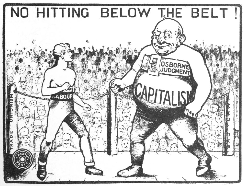 Labour Party poster after Osborne Judgement, c. 1912